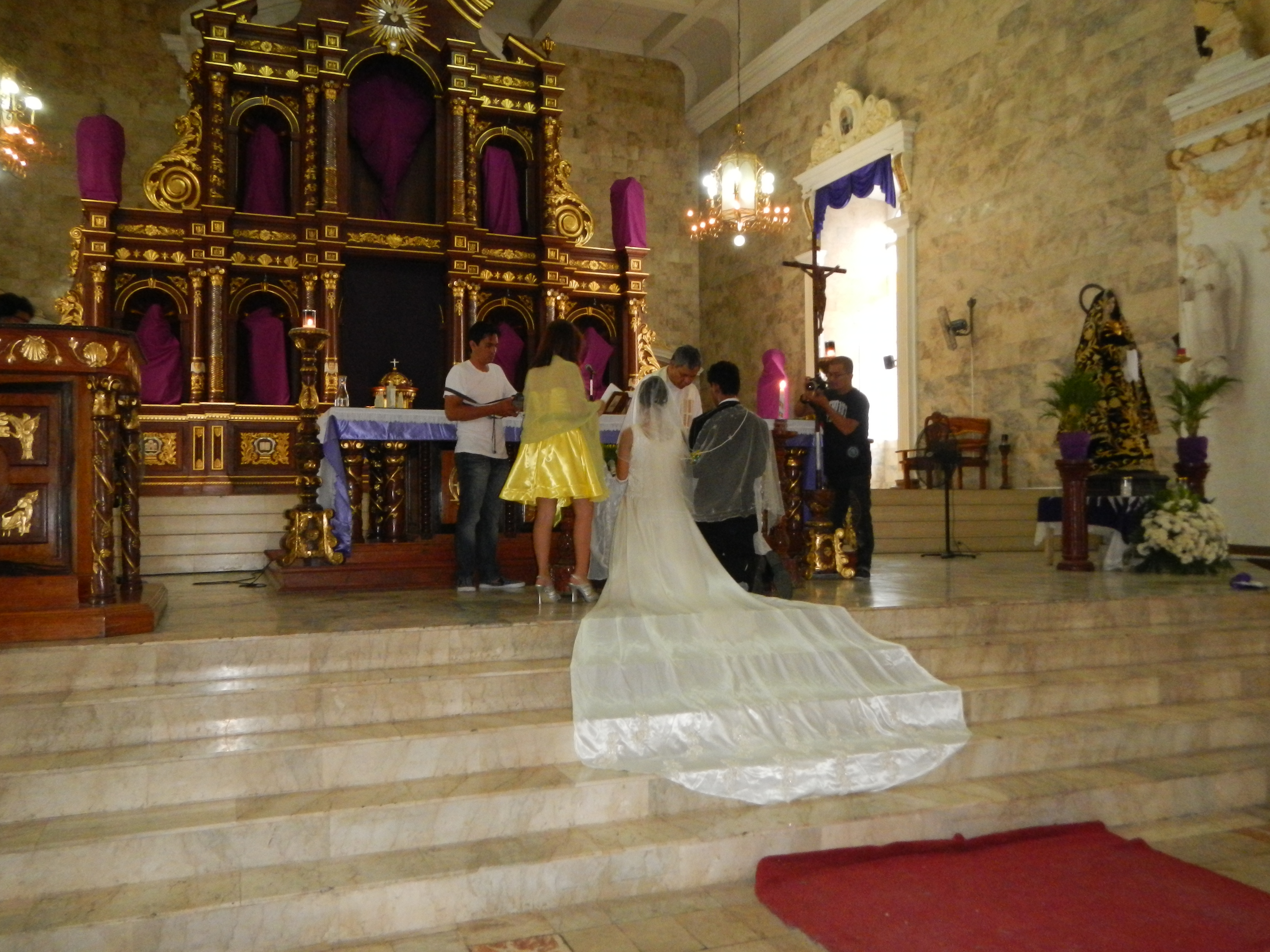 Wedding at San Nicholas De Tolentino Parish Church (Macabebe, Pampanga, 2015, March) Sunday Holy Mass, 2:00 pm -San Nicolas de Tolentino Church (Macabebe) Barangay Santa Cruz, Macabebe, Pampanga, Philippines Saint Nicholas of Tolentine, Roman Catholic Archdiocese of San Fernando the concrete Porte-cochère December 12, 2009, a new, wooden altarpiece (retablo or reredos).